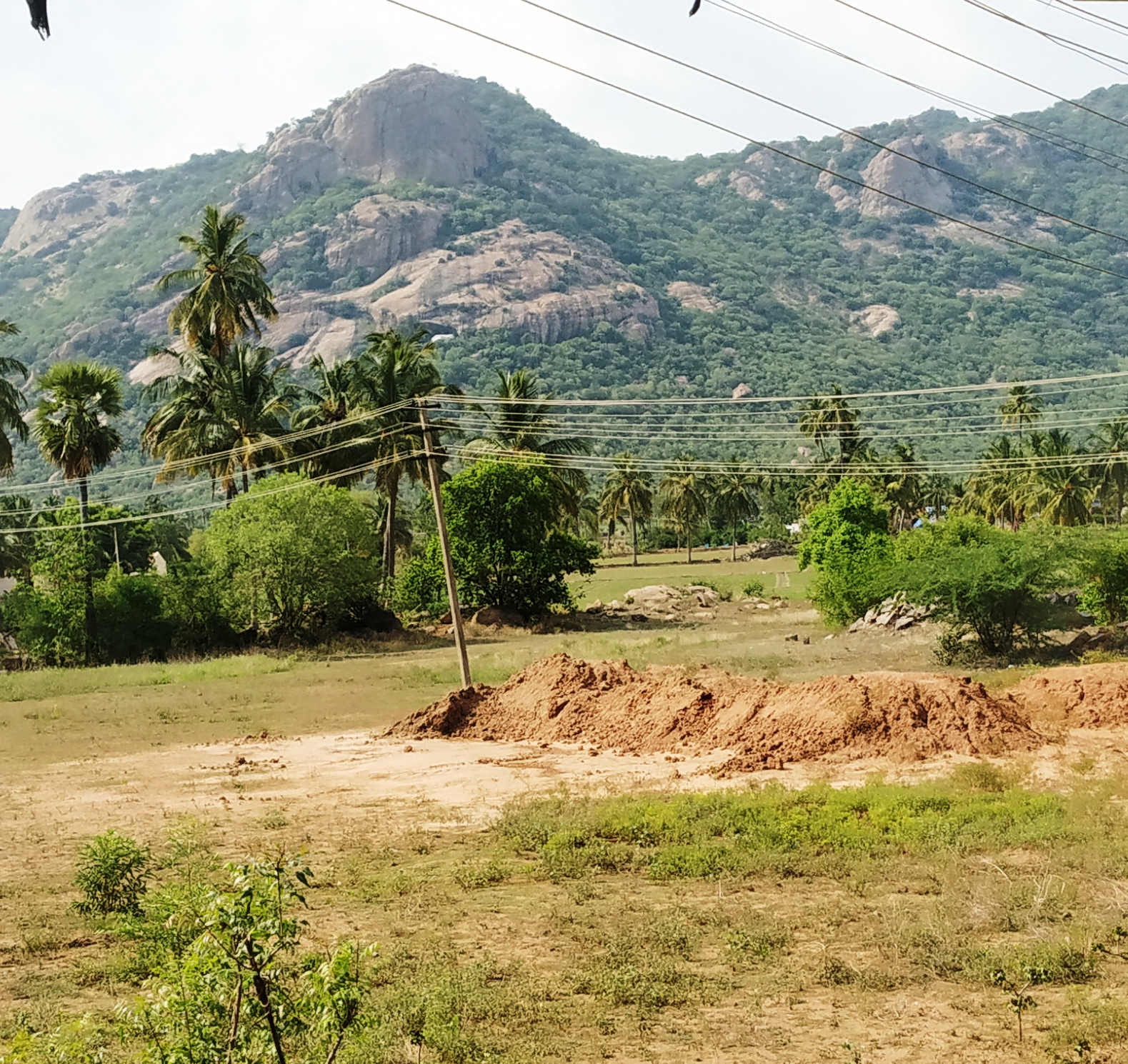 Ponsorimalai